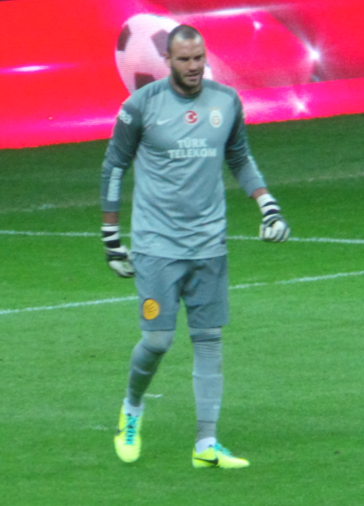 Ufuk Ceylan'13-14